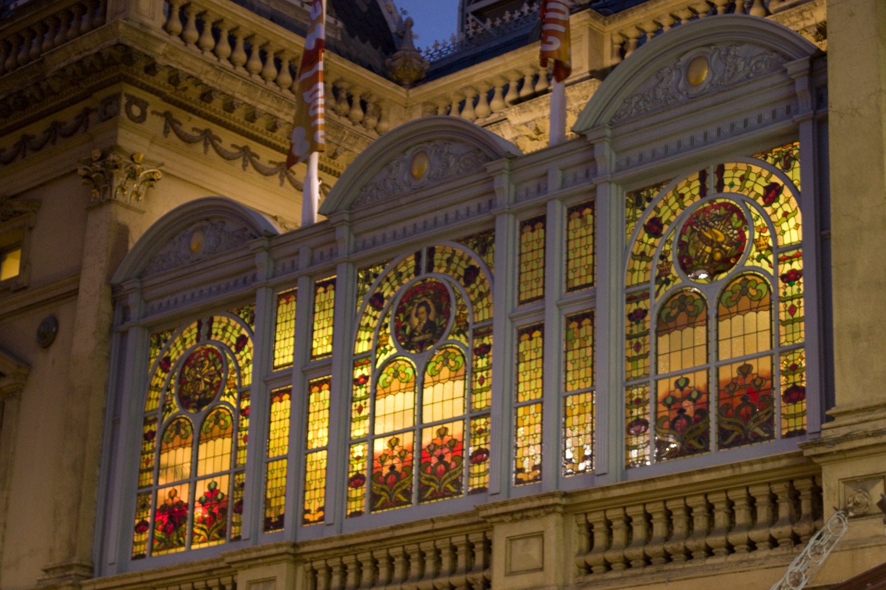 The Princess Theatre is one of the world's grandest Victorian theatres, dating from 1886 with a magnificent façade, domed mansard roofs, cast iron filigree, marble staircase and foyer, undoubtedly a unique cultural asset to the city of Melbourne.